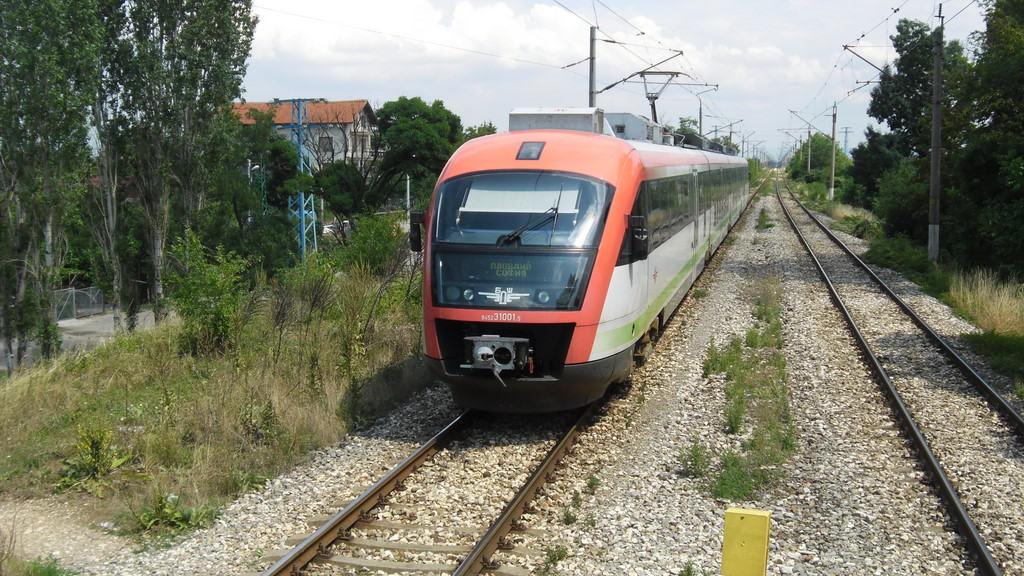 Train 10112 enters Iskar Station